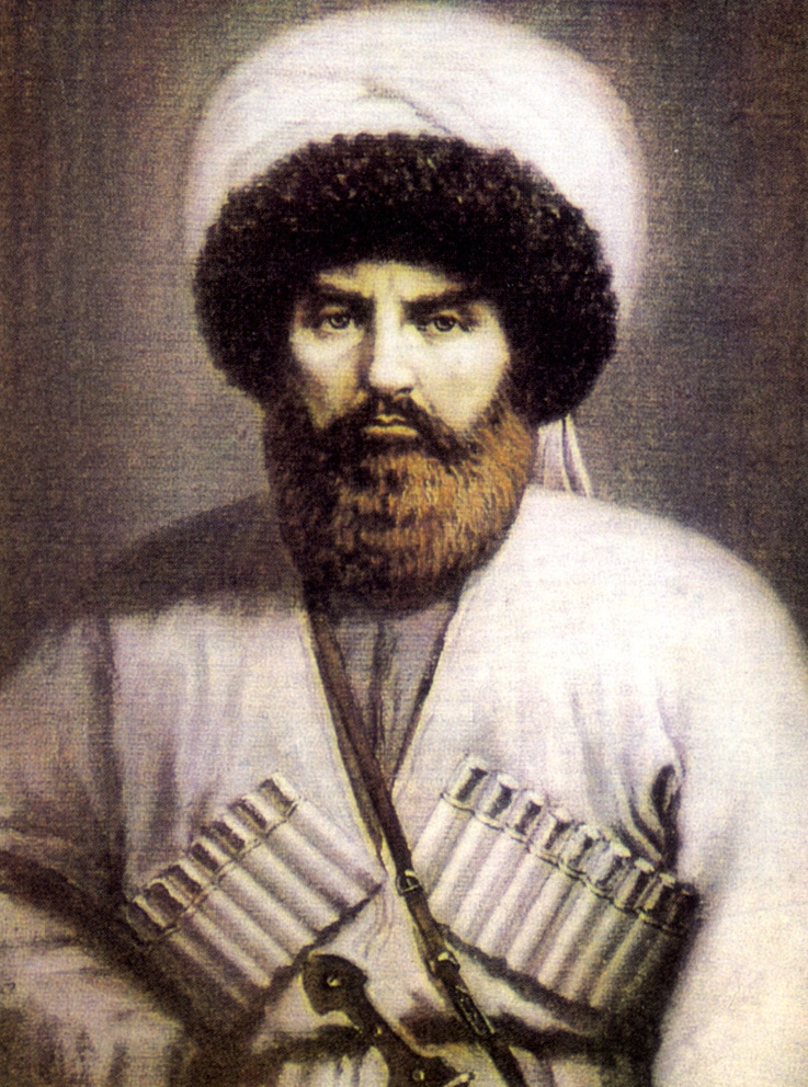 Painting of Imam Shamil